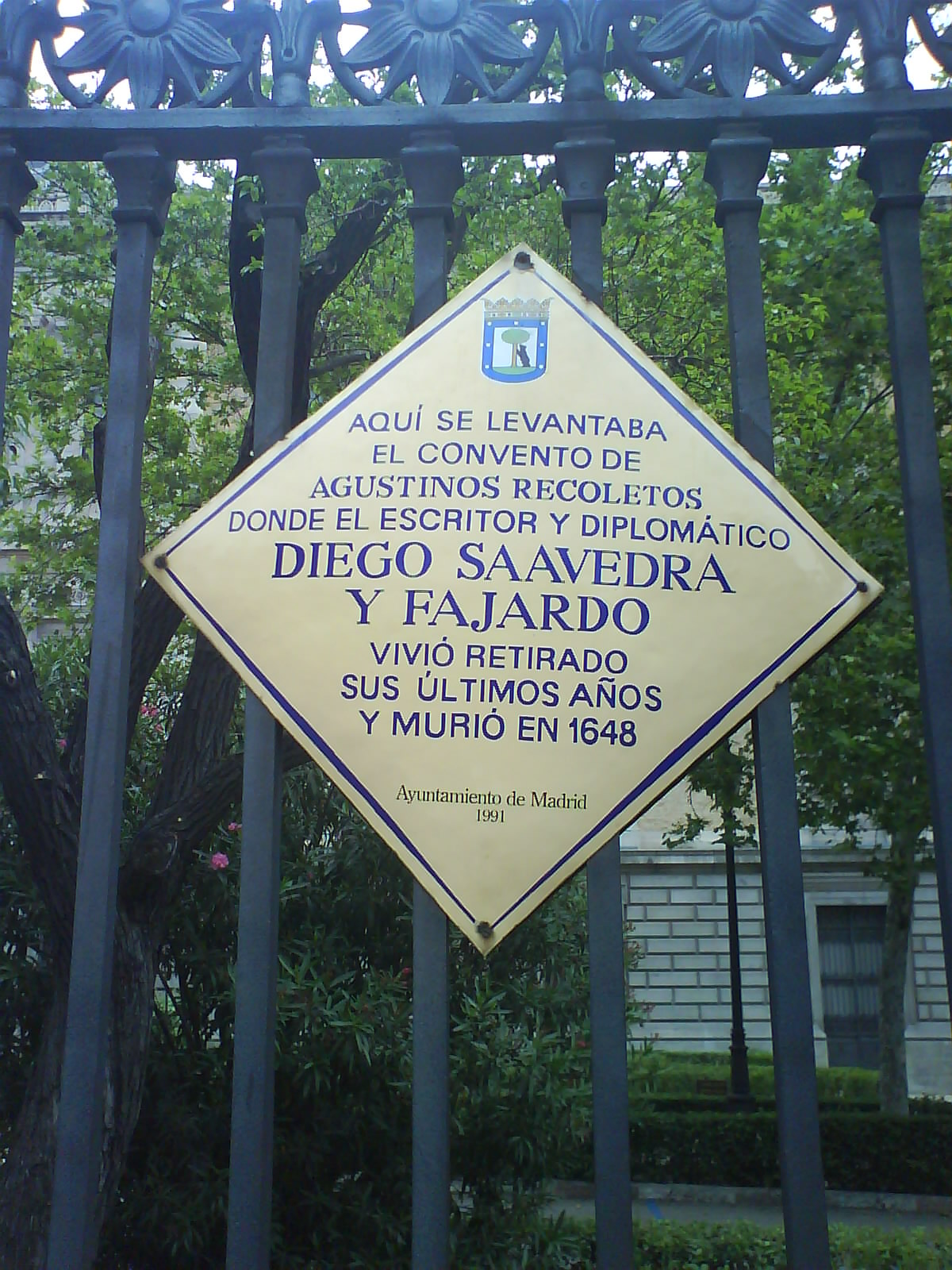 Explanatory plate near to the entry of the National Library Biblioteca Nacional of Spain